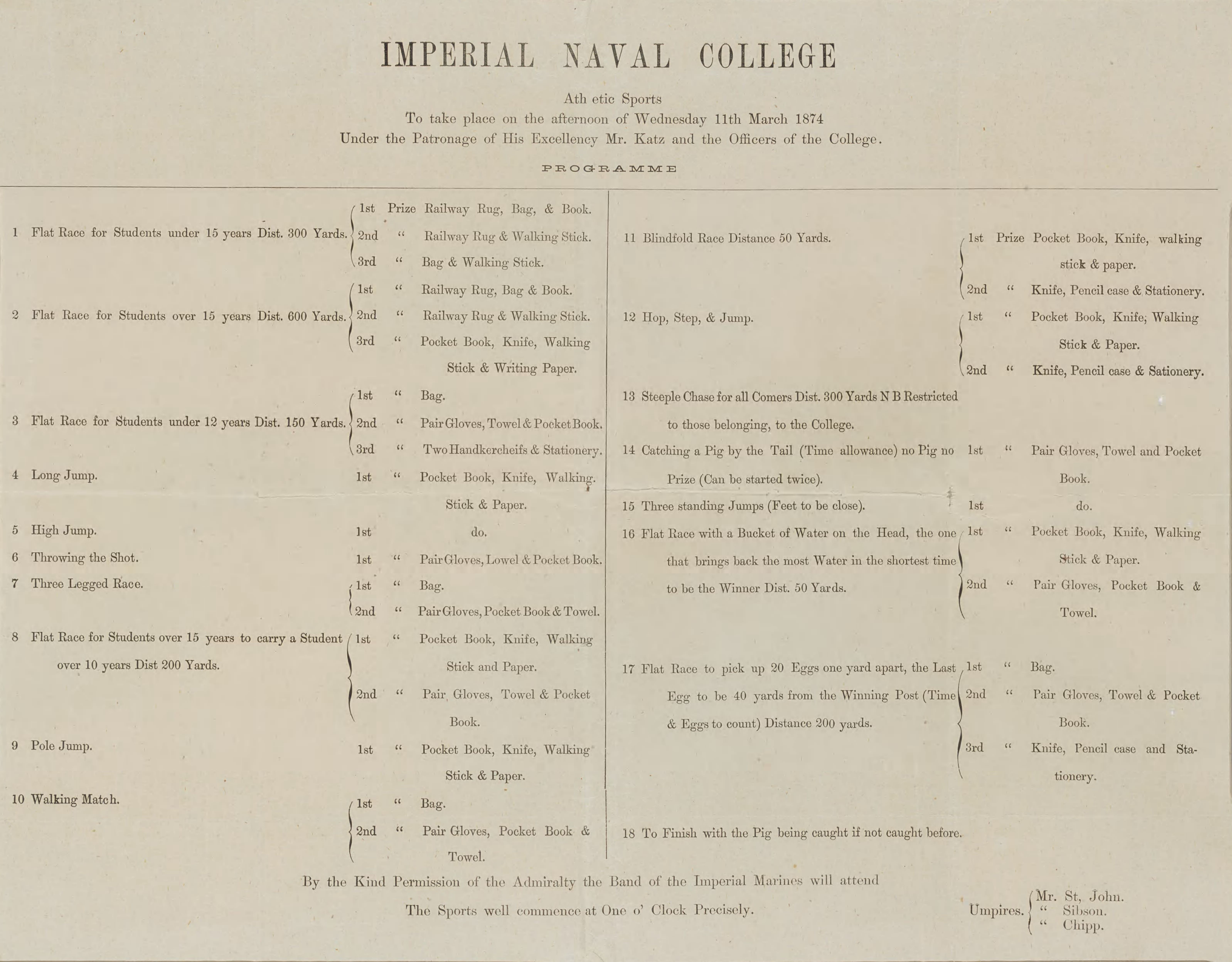 Athletics Sports programme